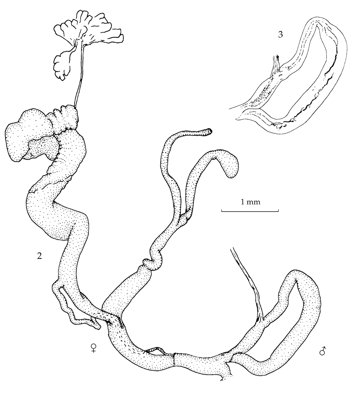 Drawing of the reproductive system of Leptacme cuongi. 3: with detail of the penial lumen after a transparent specimen. Locality: Vietnam, Thanh Hoa Province, Pu Luong National Park, limestone hill near the native village Am, 20°27.39'N 105°13.65'E; 21.ix.2003.